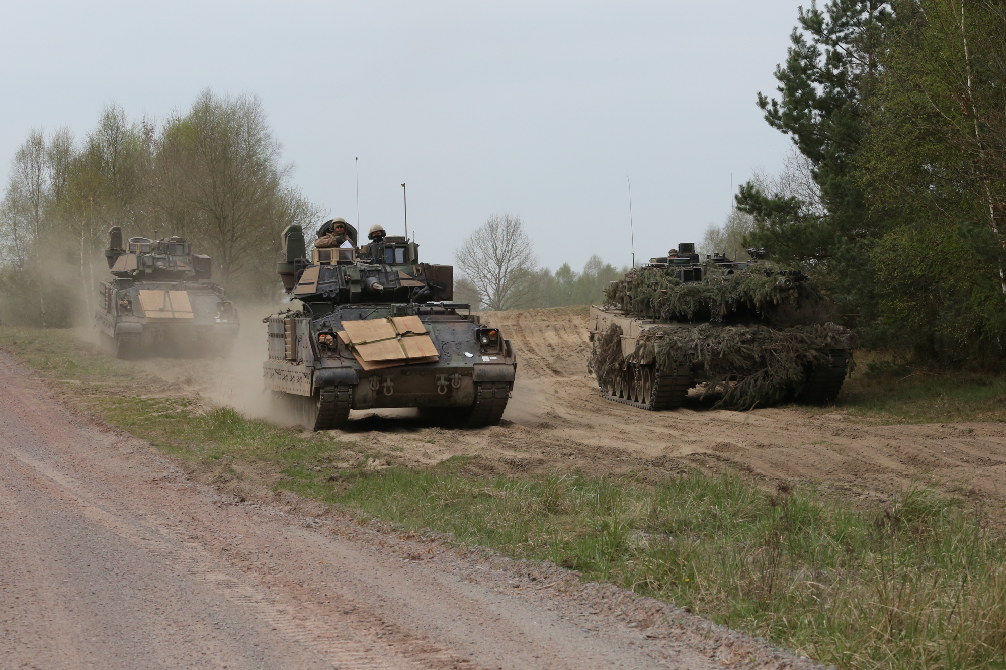 A German Army Leopard 2A4 tank, right, of the German Army Combat Training Center (GACTC) provides security down a roadway and U.S. Army M3 Bradley fighting vehicles of Alpha Company, 3rd Battalion, 69th Armor Regiment maneuver toward a personnel dismount point while conducting a water obstacle with opposing forces scenario during exercise Letzlingen Freedom Shock at the GACTC in Letzlingen, Germany, April 25, 2015. Exercise Letzlingen Freedom Shock promotes interoperability between the German and American training organizations while highlighting U.S. Army Europe's rapid deployment capabilities. (U.S. Army photo by Sgt. Ian Schell/Released)